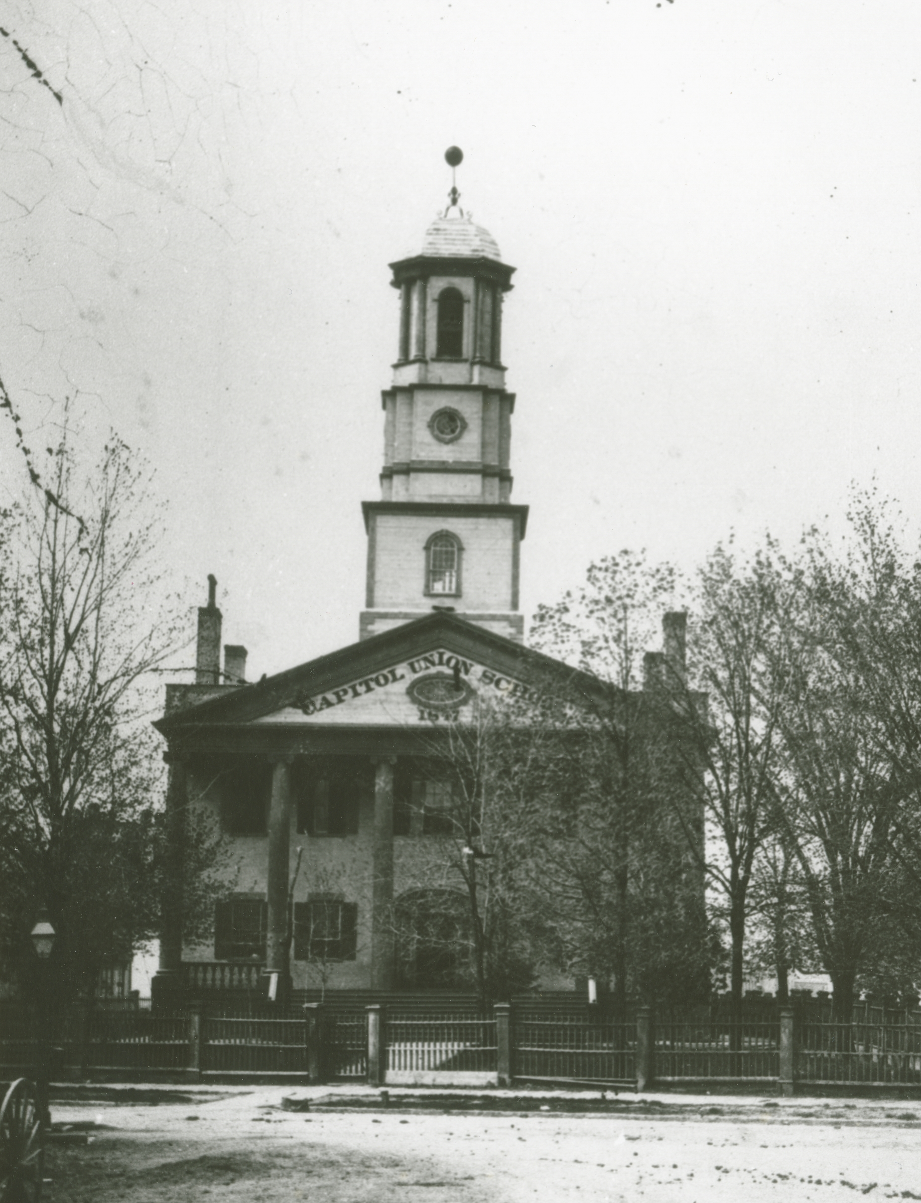 The first Michigan Capitol Building, which was located in Detroit, Michigan — in an 1847 photo. After the Michigan State Capitol moved to Lansing in 1847, the building became the Capitol Union School.